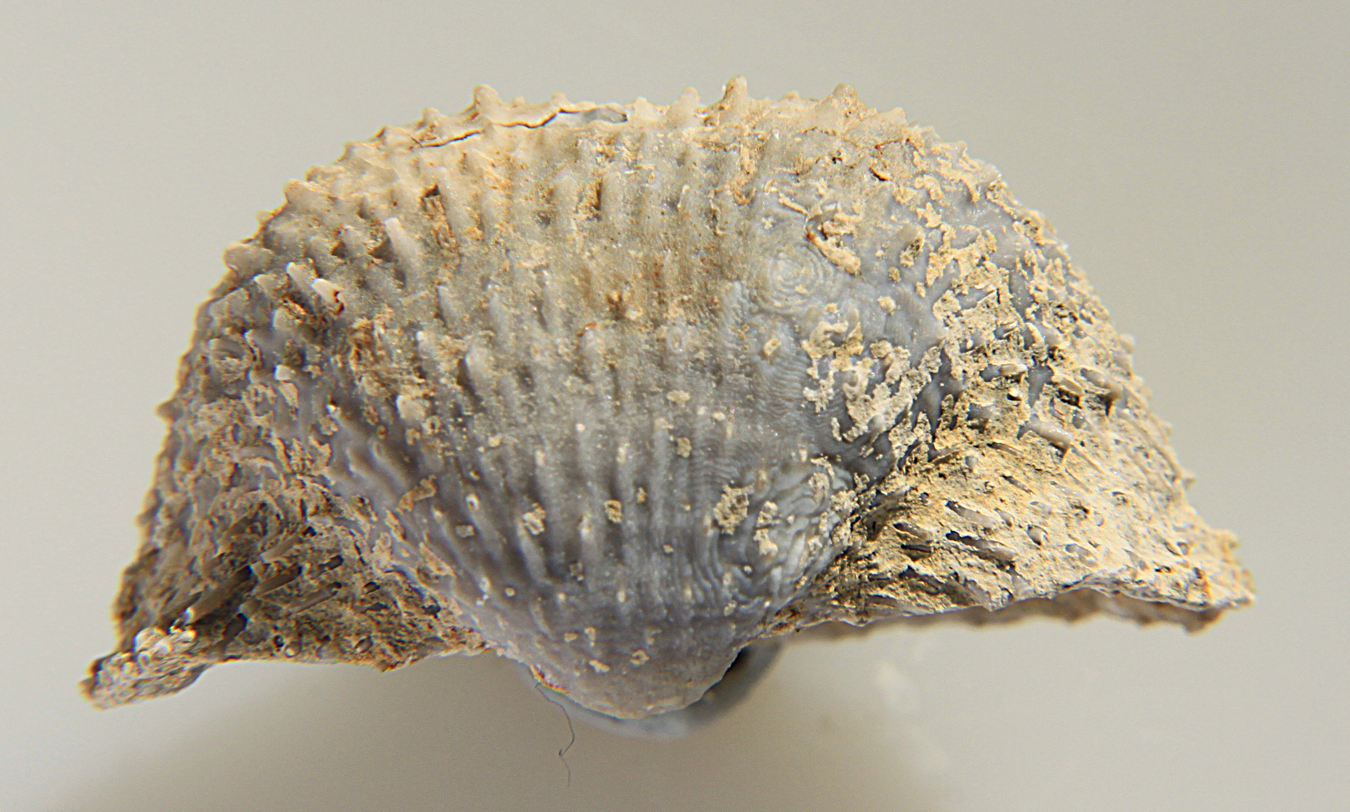 A Dictyoclostus bassi lampshell, pedunculate valve, Order Productida, Family Productidae, 23mm measured along the axis, collected from the Pueblo Formation, Wolfcamp Series, Shackleford County, Texas, USA, from the Lower Permian (Asselian)